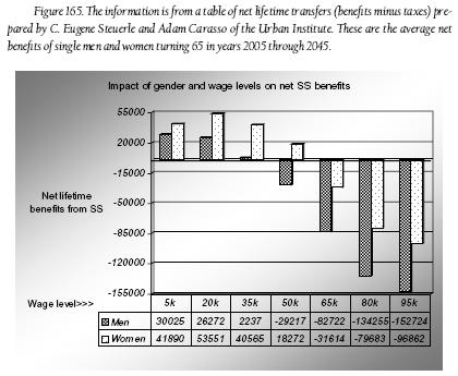 In the United States, Social Security benefits by gender and wage levels. According to author Joseph Fried, this graphic uses information from: C. Eugene Steuerle and Adam Carasso, "The USA Today Lifetime Social Security and Medicare Benefits Calculator," (Urban Institute, October 1, 2004), from: Note: The calculator does not include the value or cost of the Social Security disability program.